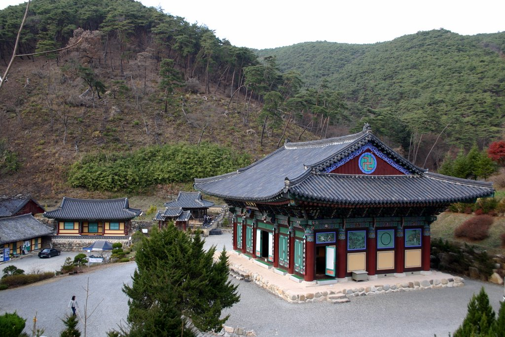 A scenry of Andong City, Gyeongsangbuk-do, South Korea